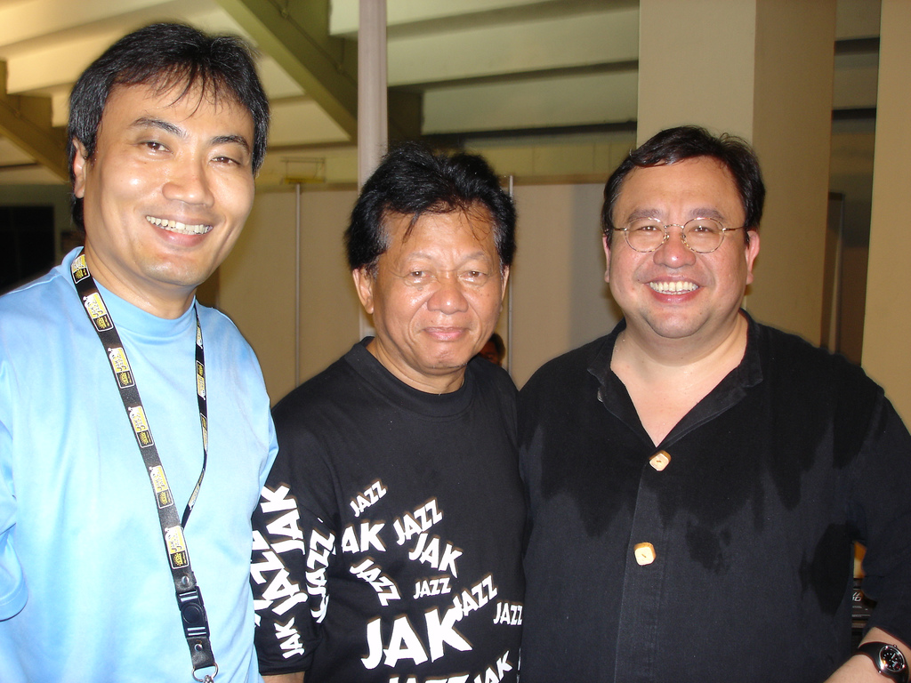 Jeremy Monteiro (far right)